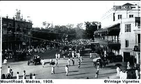 THIS IS THE HOTEL D'ANGELIS IN 1908, YOU CAN SEE AUTOMOBILES IN THAT YEAR.. IN THE STREETS OF MADRAS (mount road.)